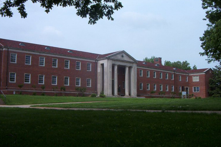 Hall-Moody Administration Building, UT Martin. Camera is looking northeast.